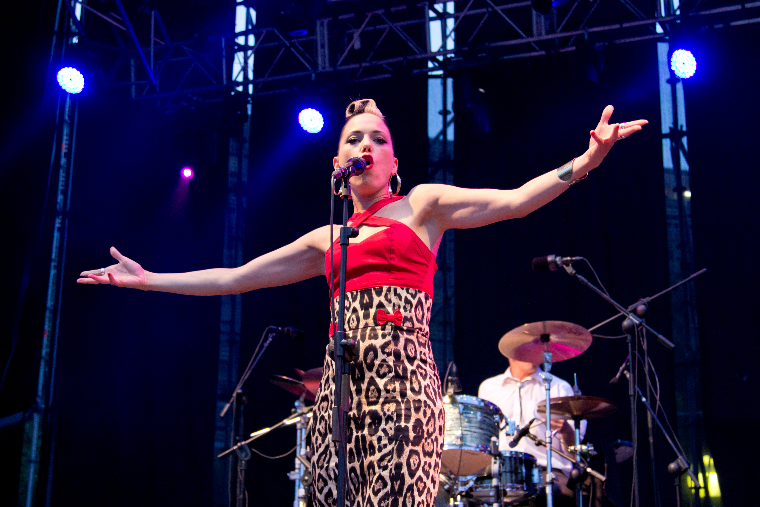 Imelda May at Madgarden Fest 2015, Madrid, Spain.